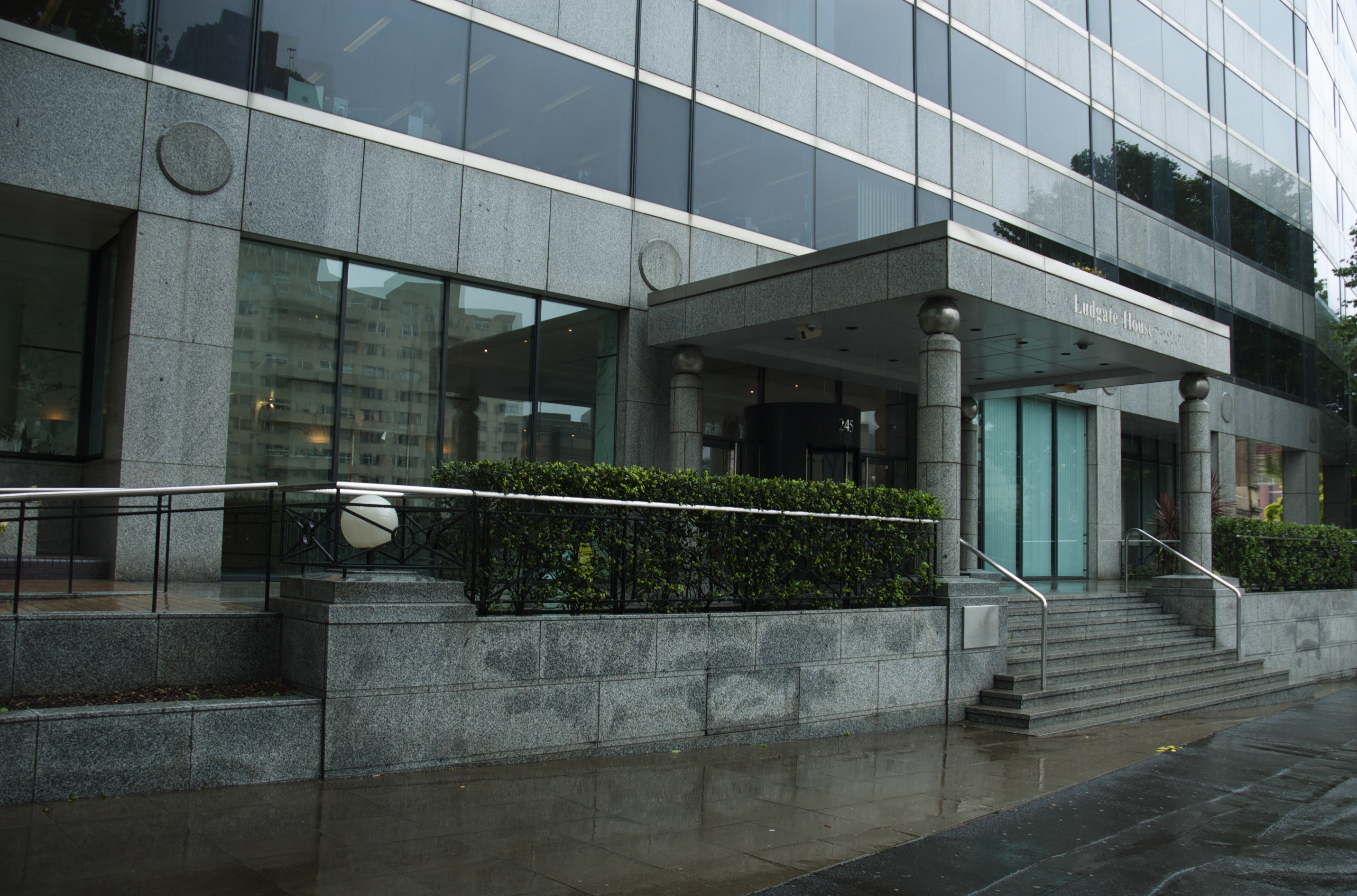 United Business Media offices